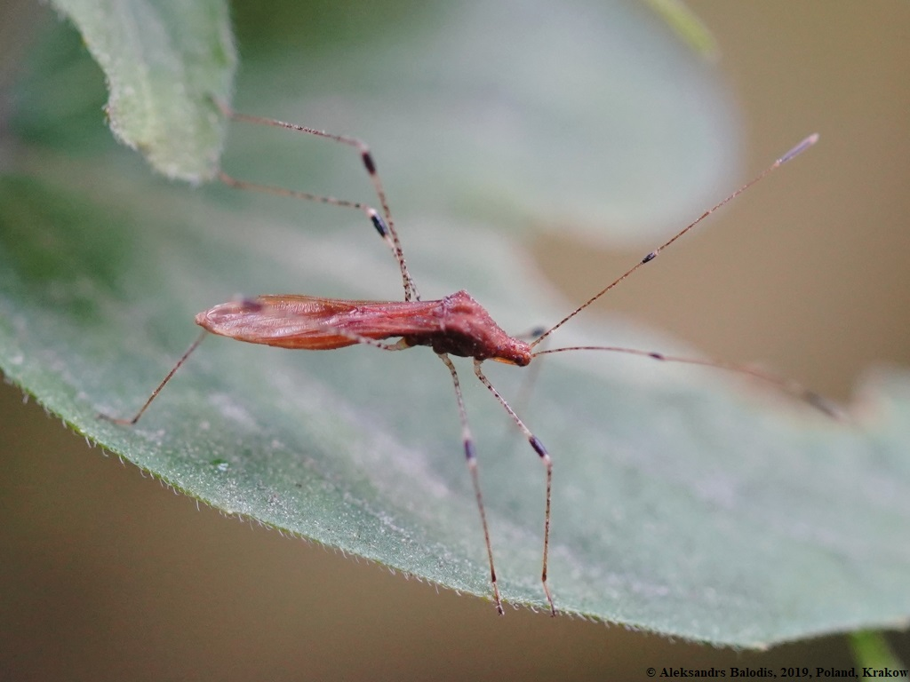 Metatropis rufescens